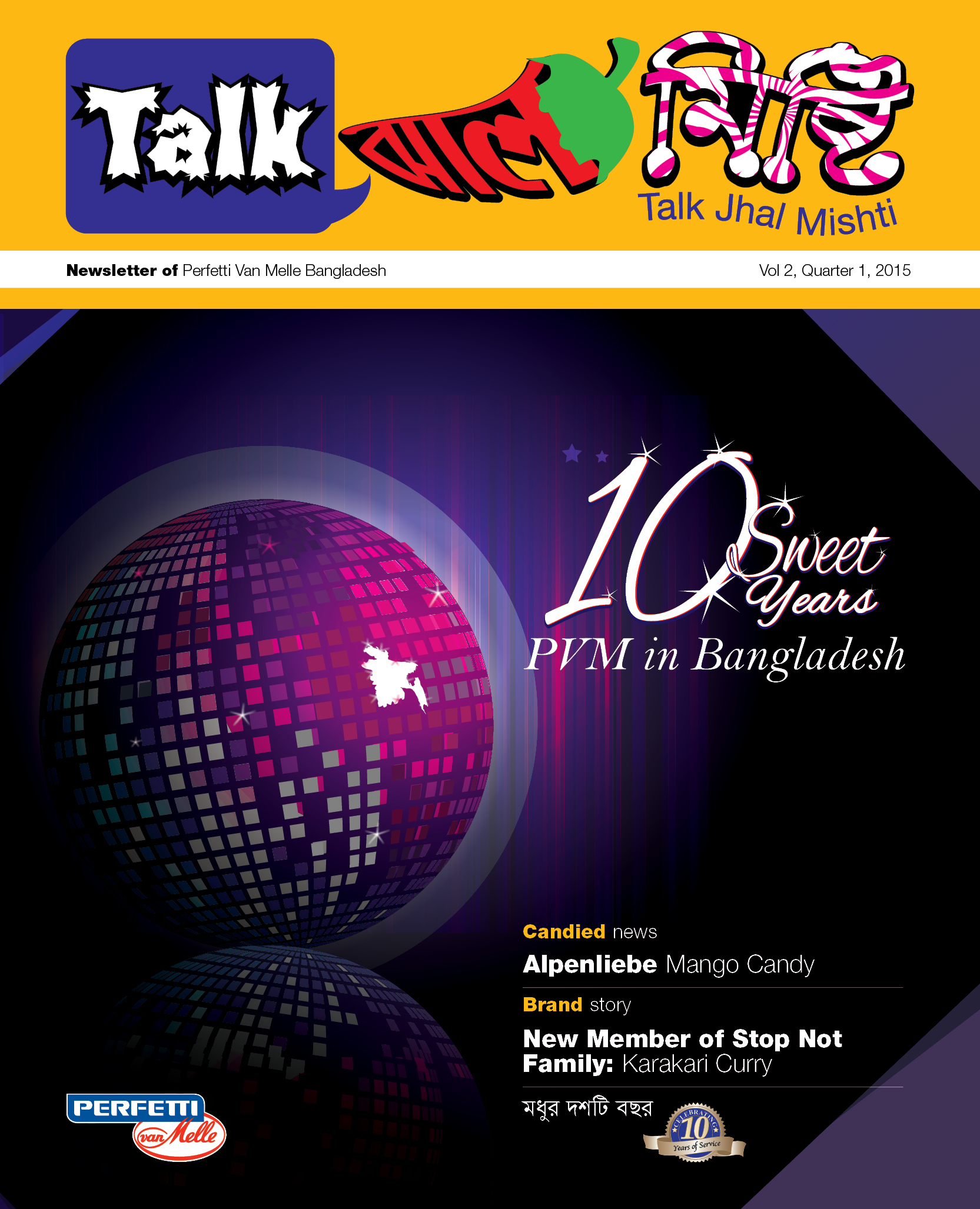 Newsletter of Perfetti Van Melle Bangladesh